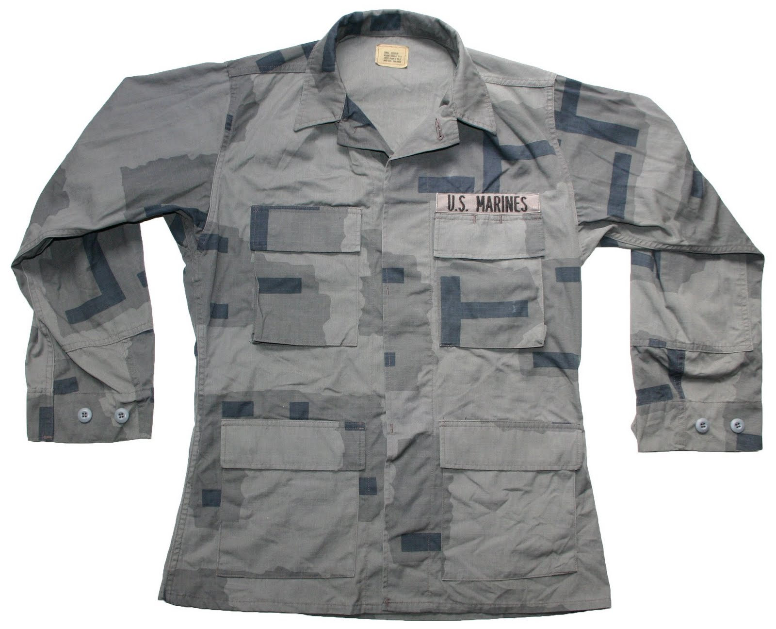 Detail of the original T-pattern coat used during the Operation Urban Warrior that happened in march 1999 in Oakland, CA.